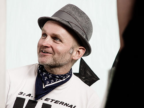 Jim Avignon at TYPO Berlin 2014